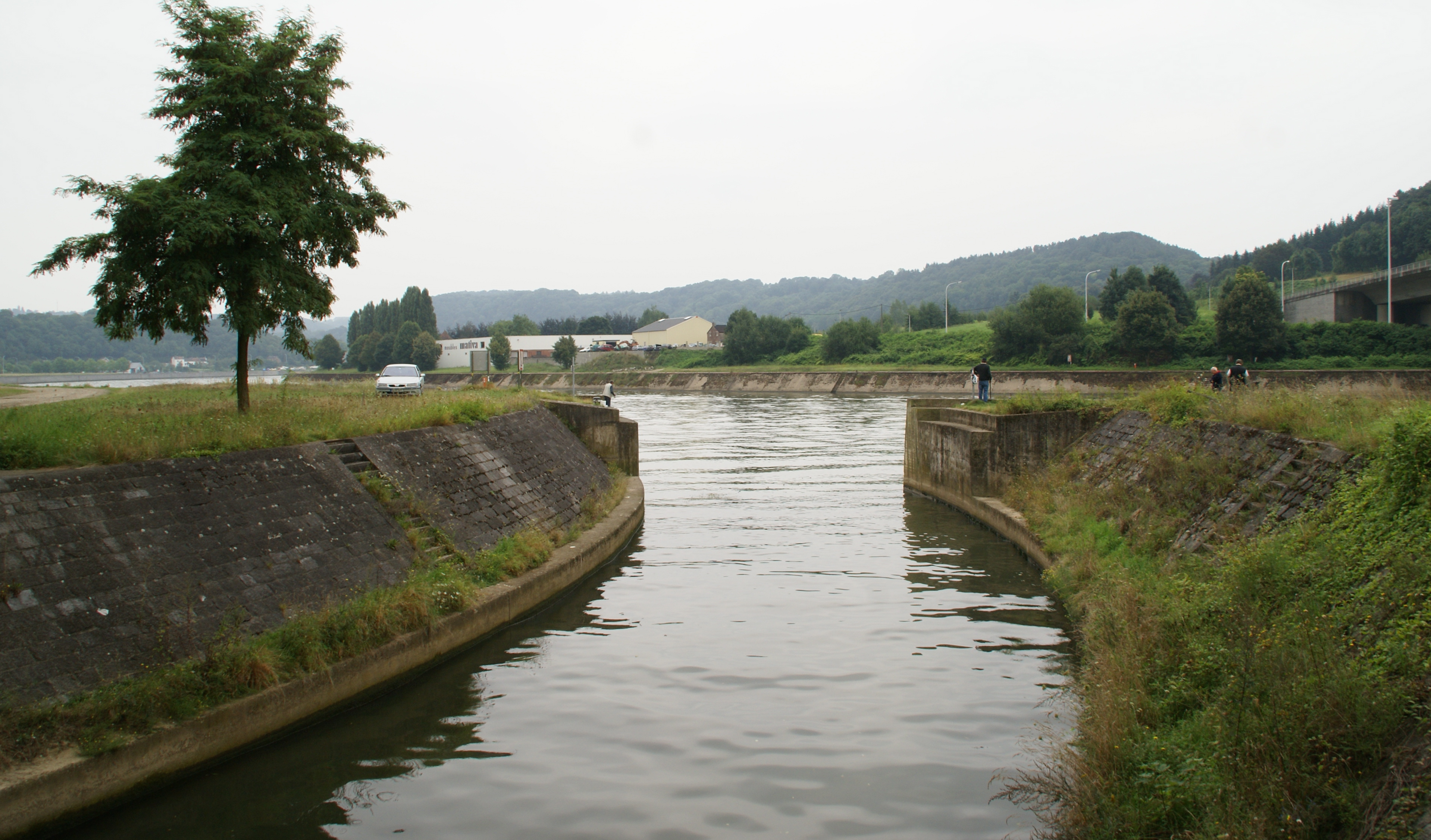 Wanze (Belgium): River Meuse and Mehaigne